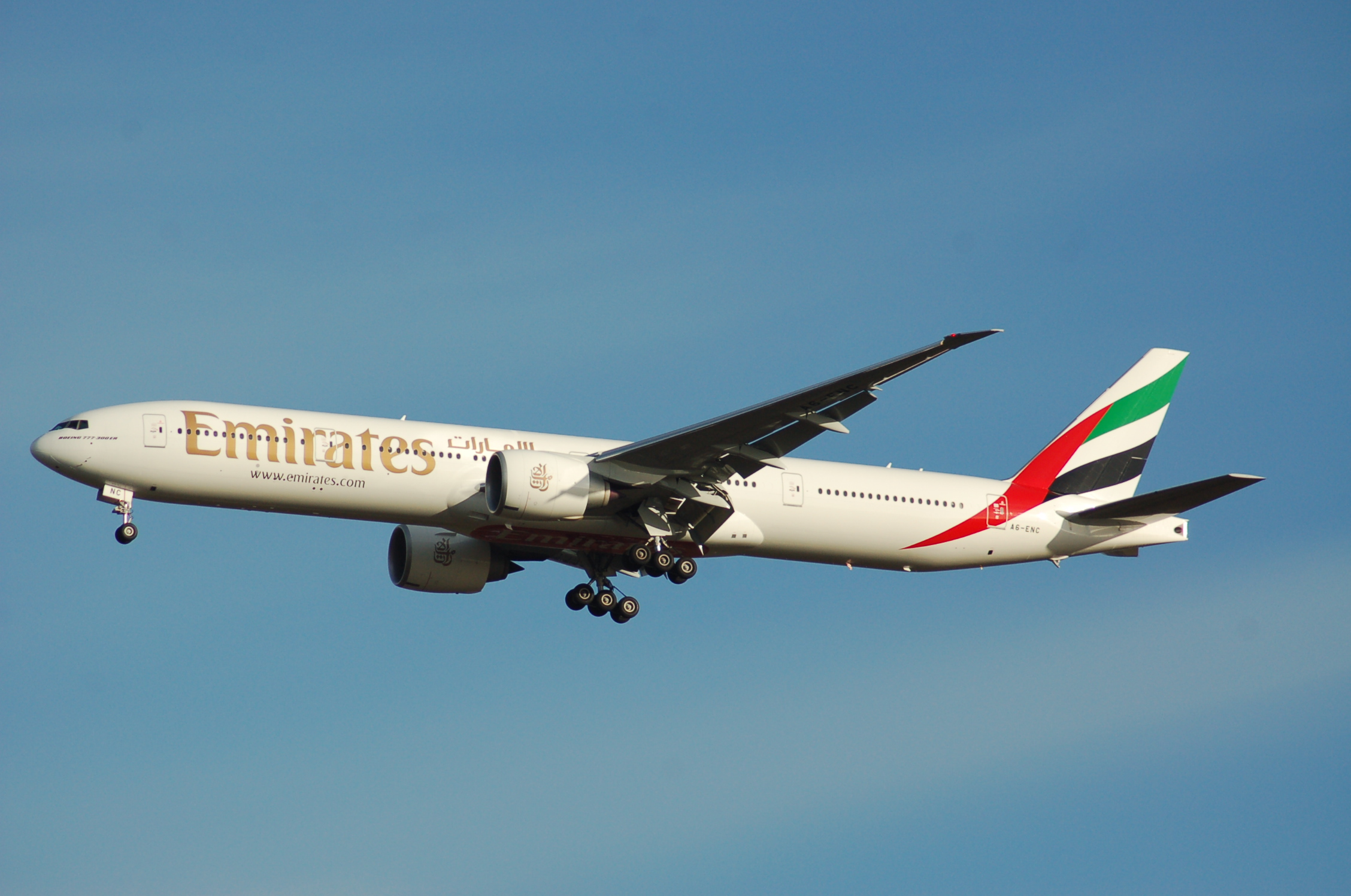 Boeing 777/3 of Emirates on final approach to rwy 33 at Birmingham-BHX,17/12/12.